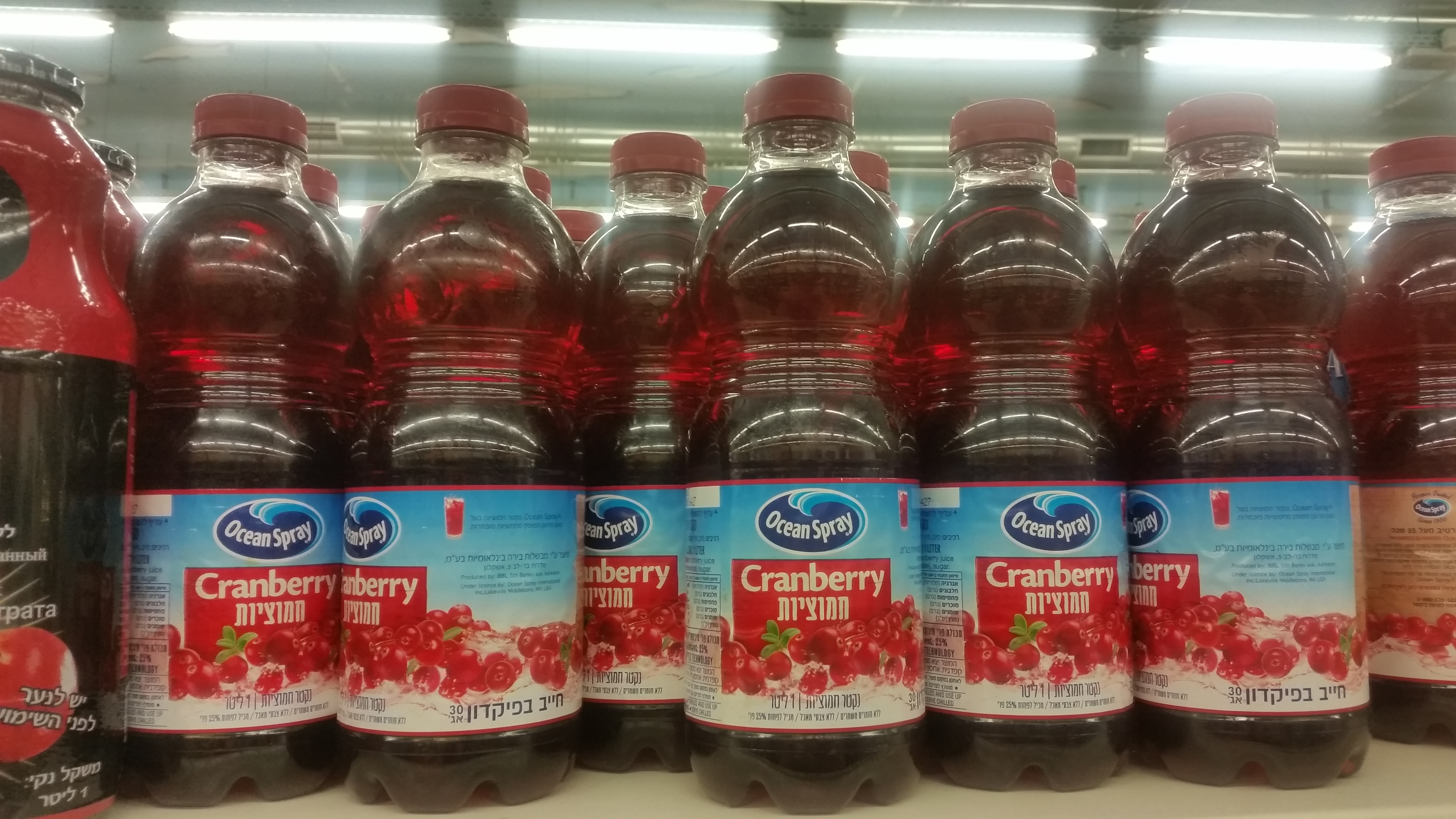 at the shop